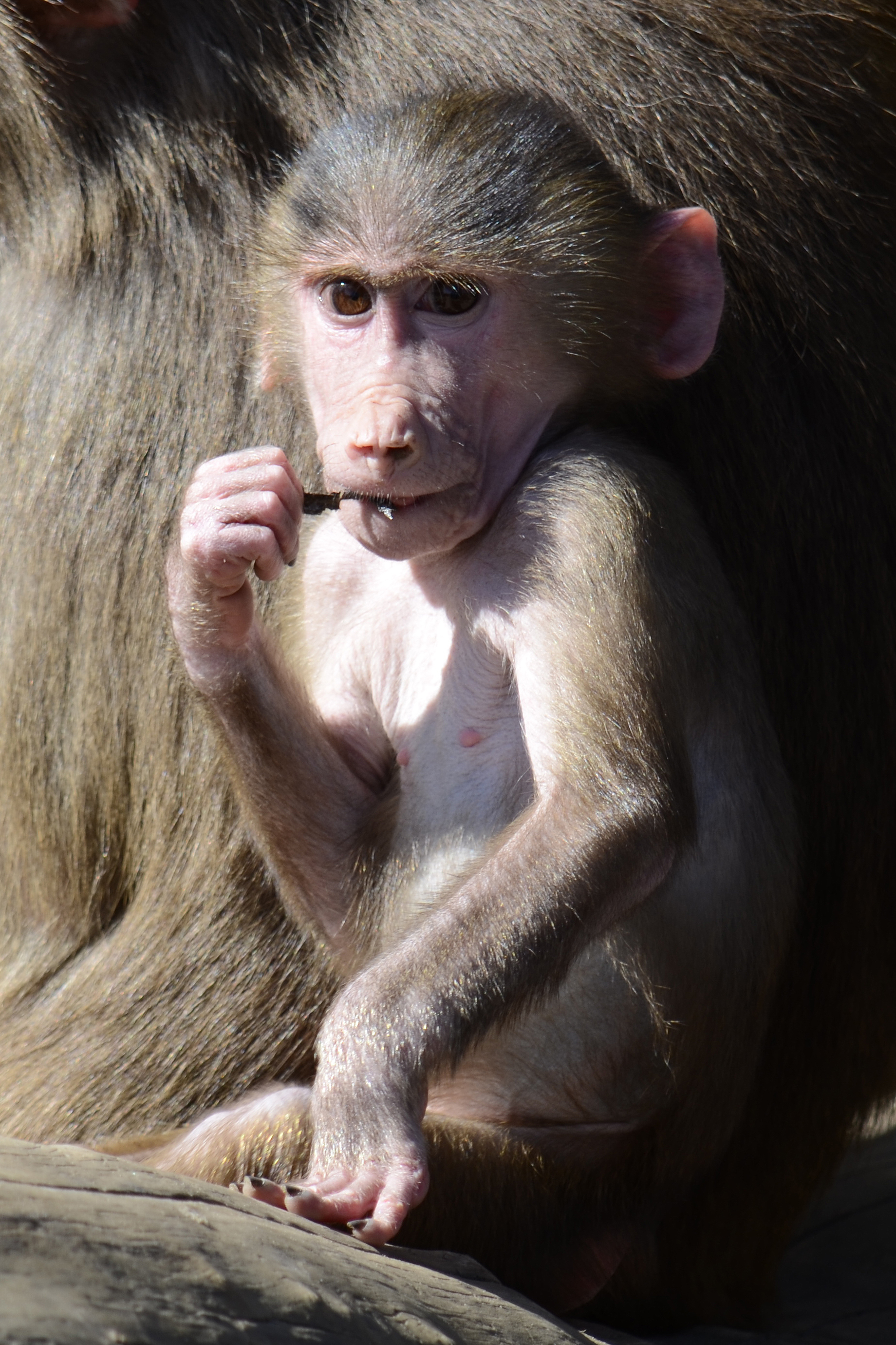 Portrait of a baboon